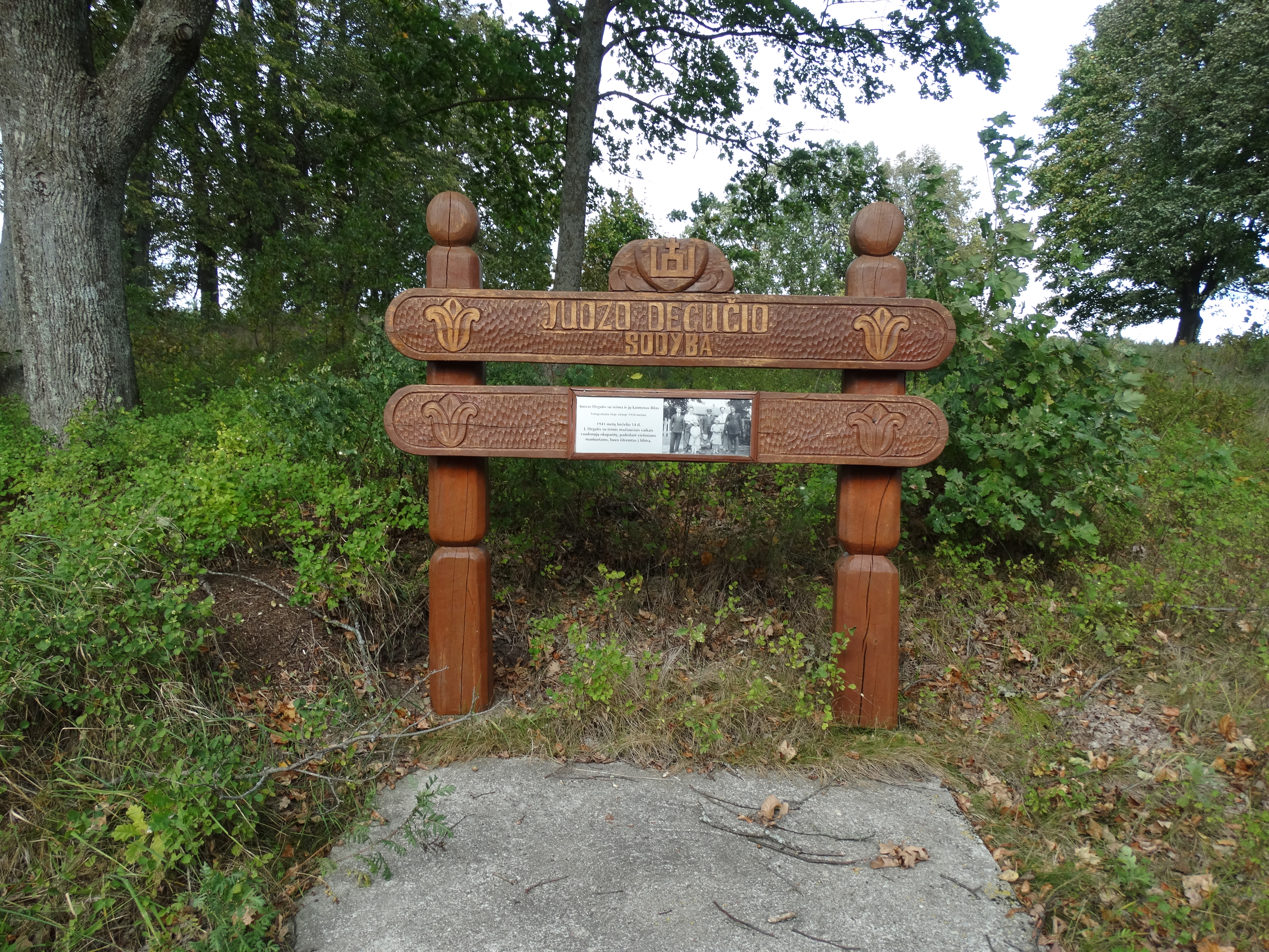 Didžiosios Zariškės, Kazlų Rūda municipality, Lithuania